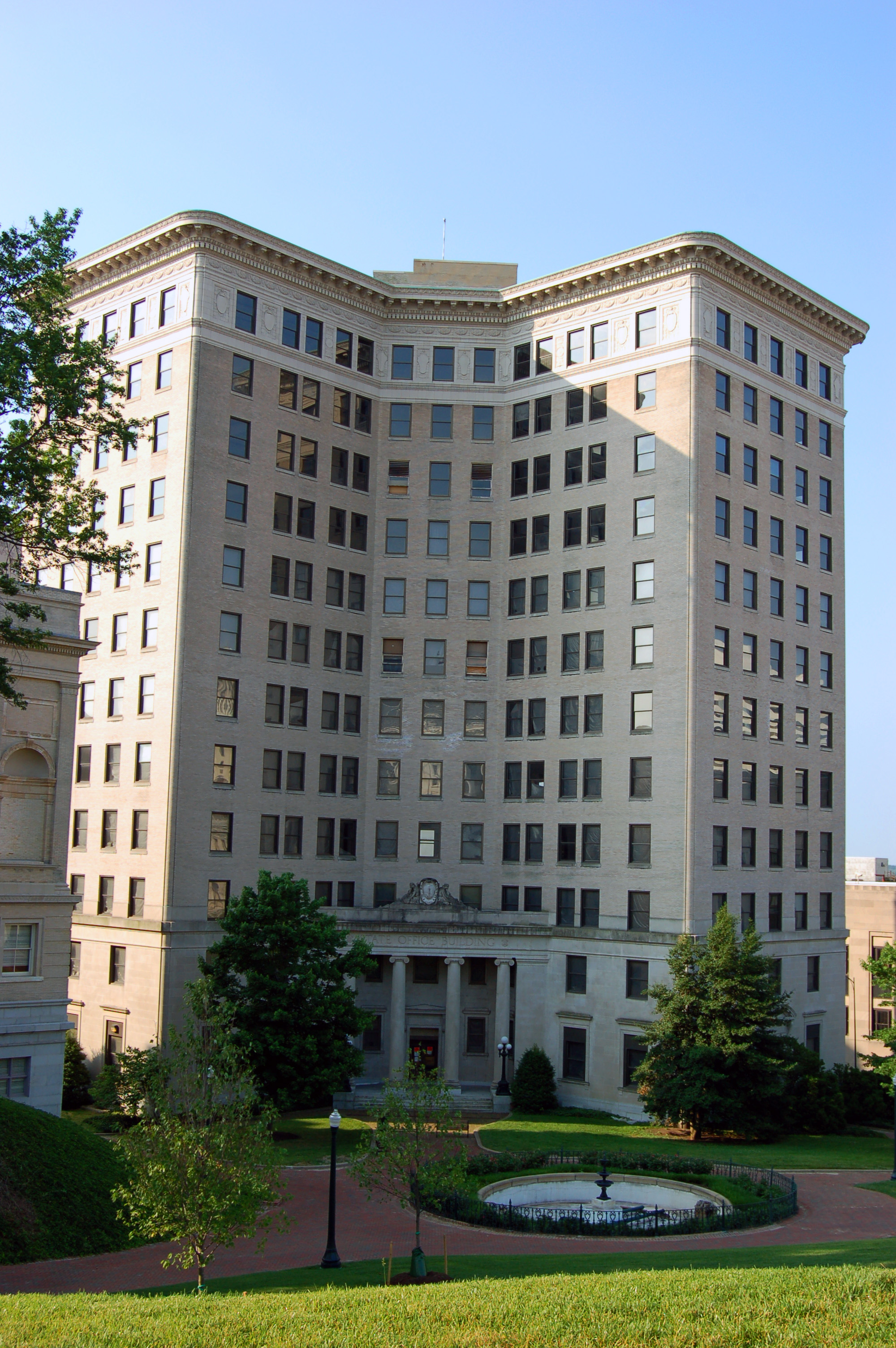 Commonwealth of Virginia, Capitol Square. Richmond VA